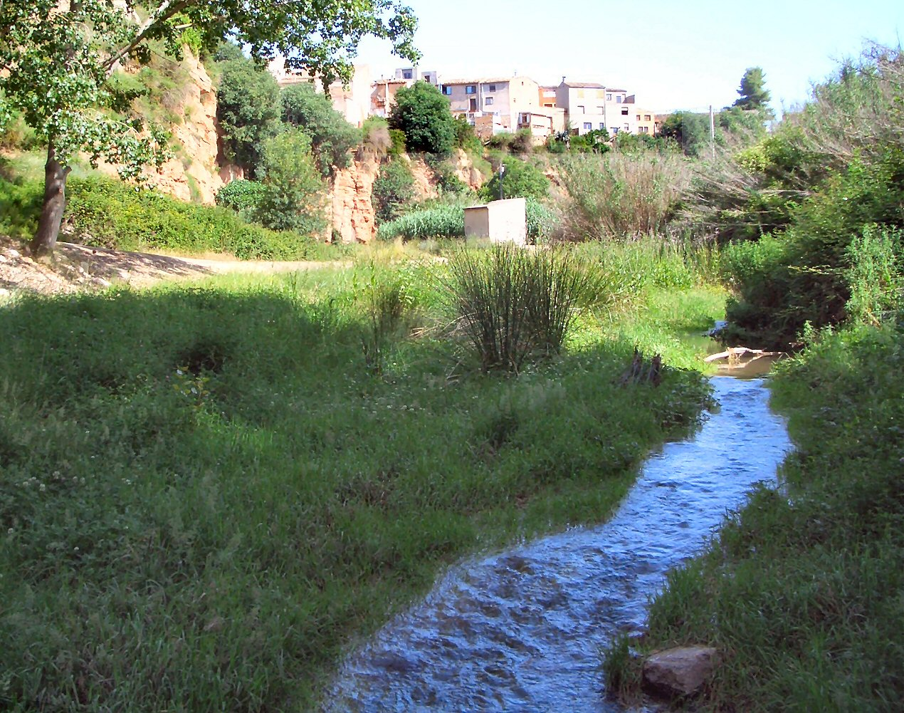 River Anguera (Conca de Baberà, Catalonia) by Pira